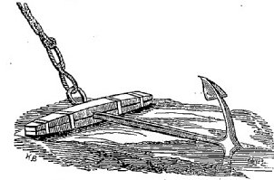 Anchor on the ground